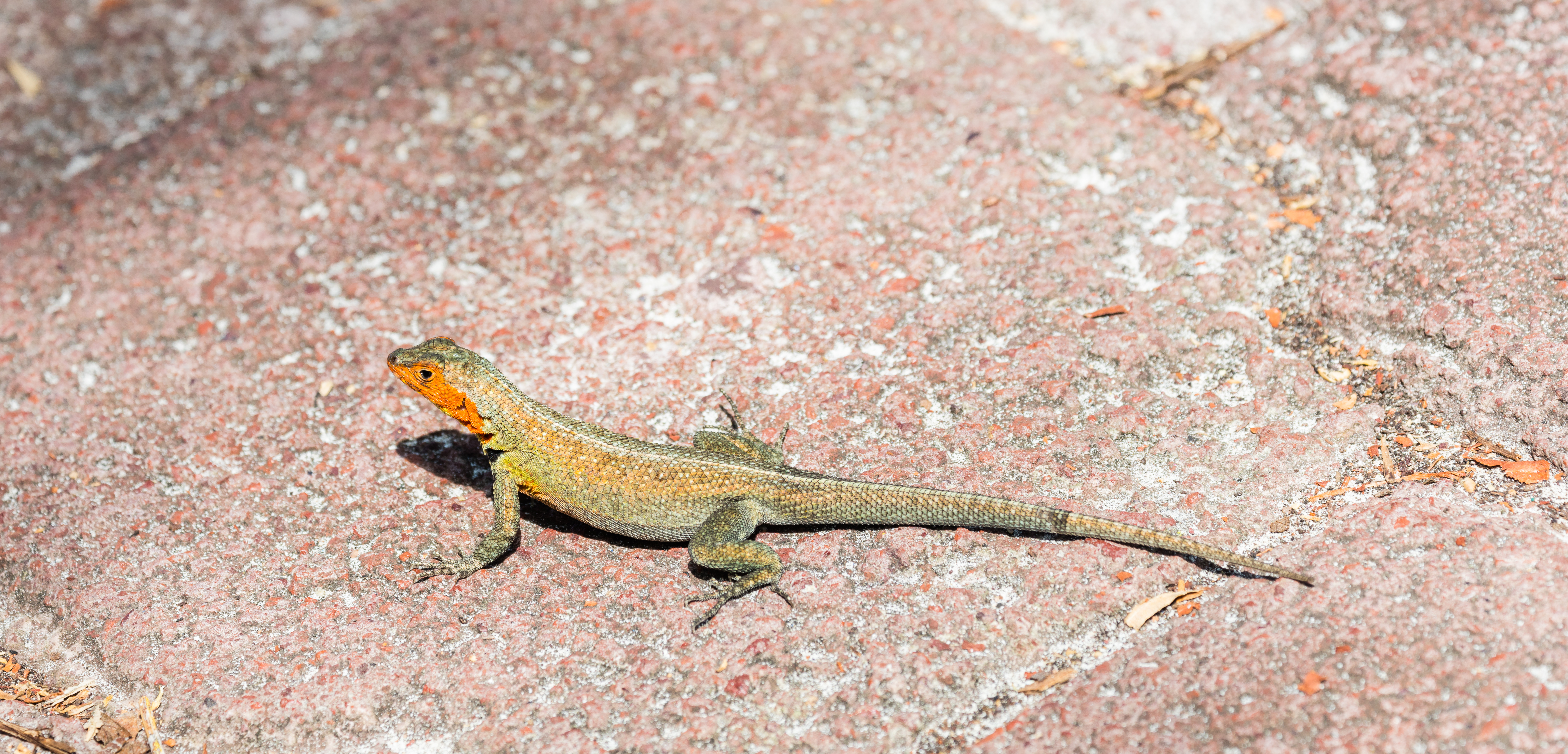 San Cristóbal lava lizard (Microlophus bivittatus), Punta Pitt, Santa Cruz Island, Galapagos Islands, Ecuador